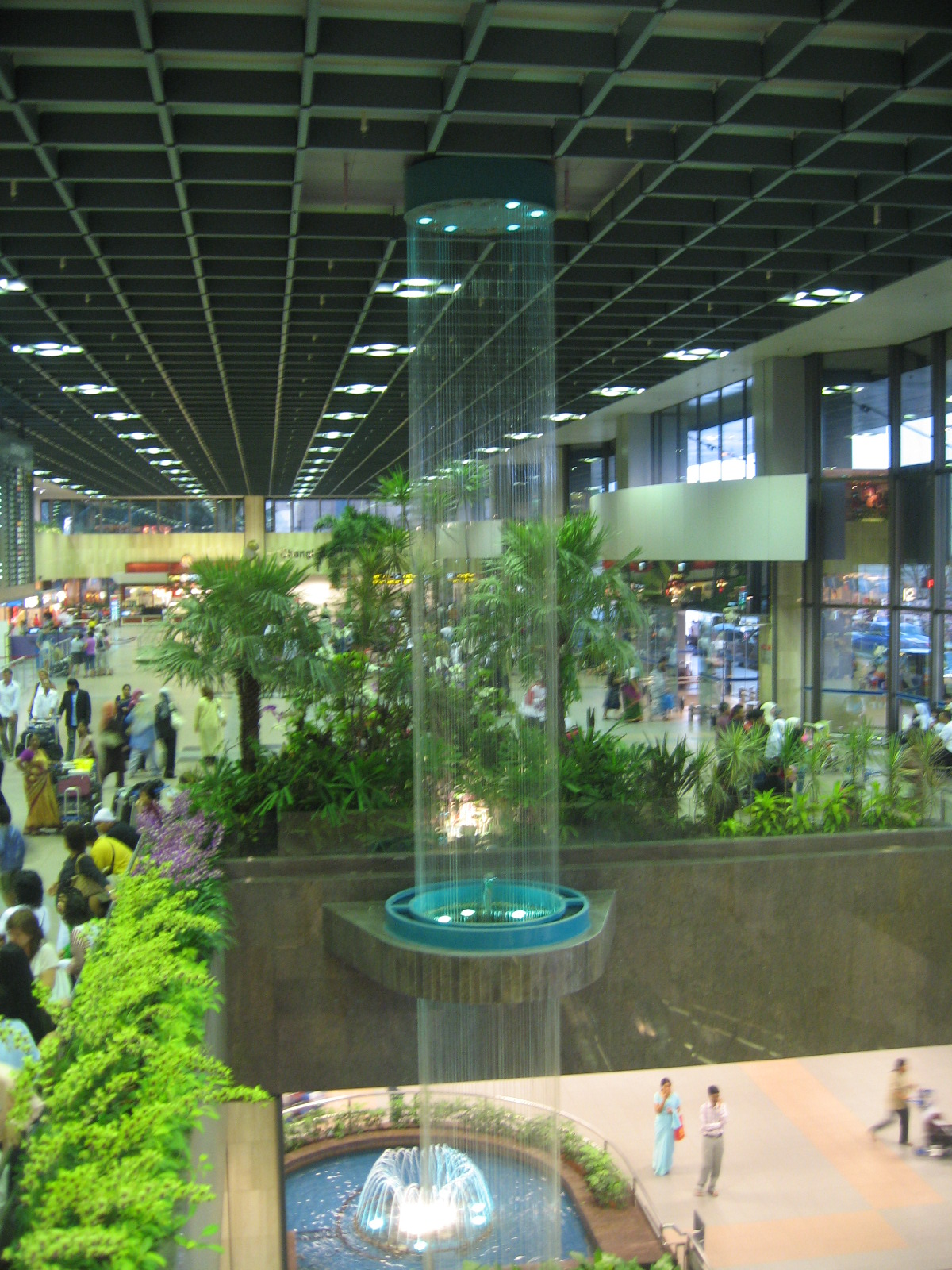 Singapore Changi Airport, Terminal 1, Departure Hall.